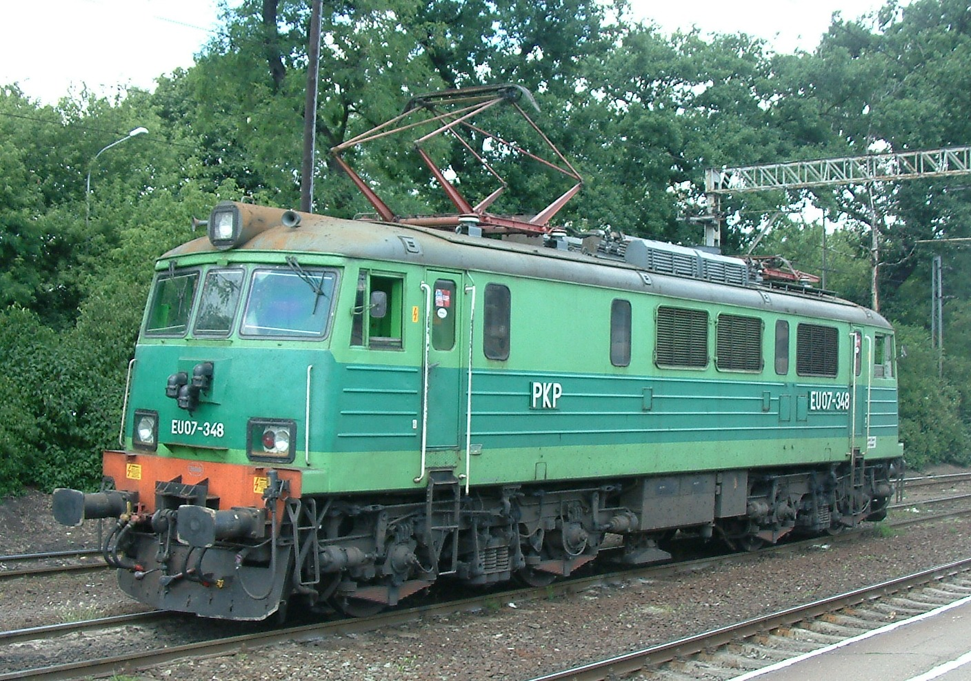 Locomotive EU07-348 in Poznań.